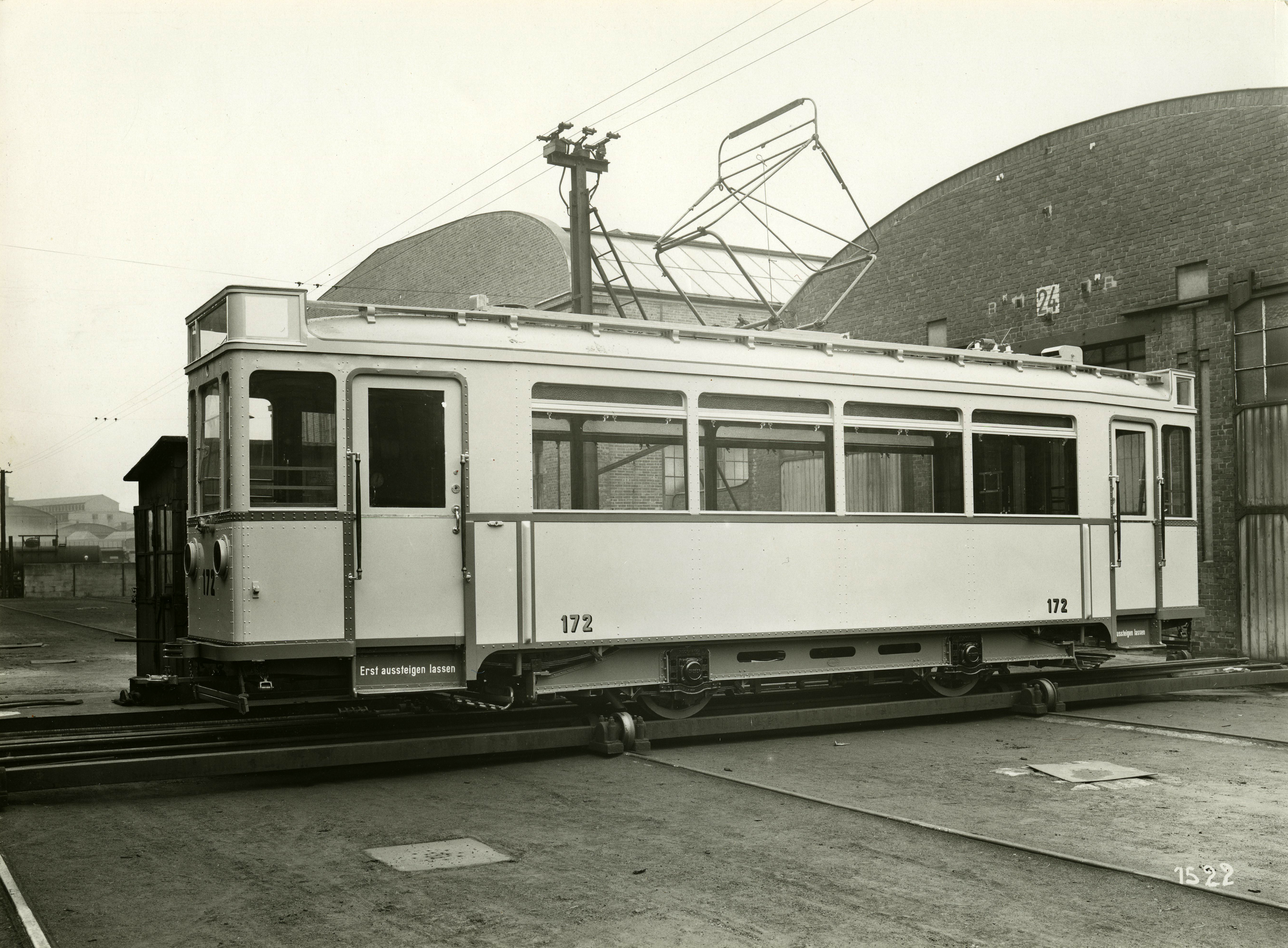 Hawa tram in the Hawa factory in Hanover-Linden